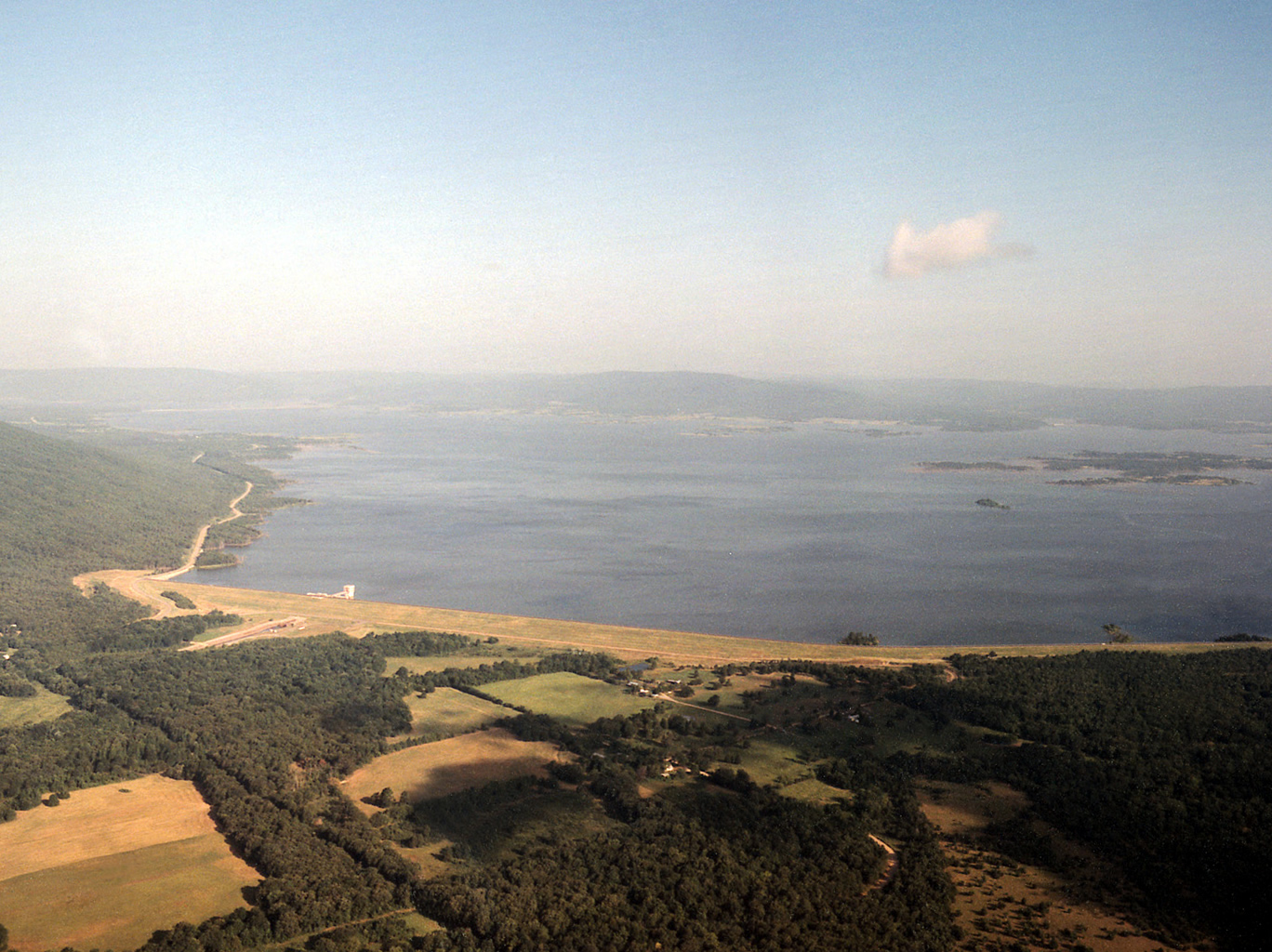 Aerial view of Sardis Lake and Dam in Pushmataha County, Oklahoma, USA. The U.S. Army Corps of Engineers constructed the dam for the state of Oklahoma under a 1974 contract. Original picture rotated and cropped by contributor. Coordinates: 34°37′56.12″N 95°20′32.8″W / 34.6322556°N 95.342444°W